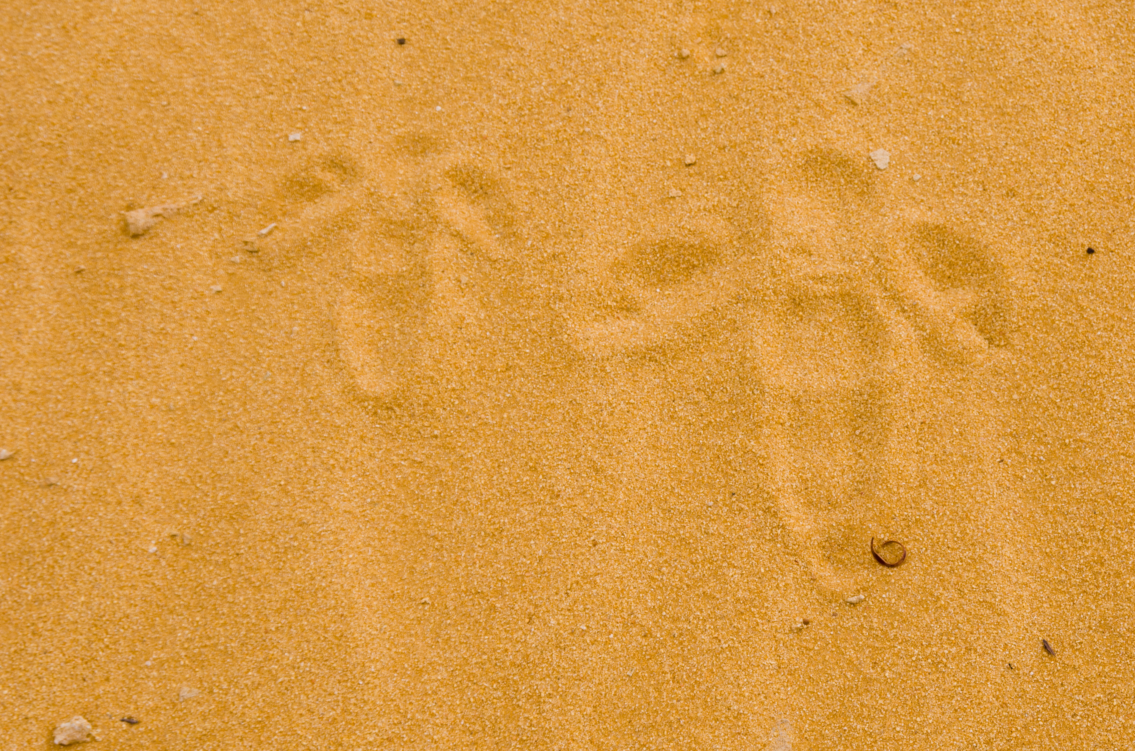 Pinnacles - Nambung National Park emu foot prints, adult and juvenile